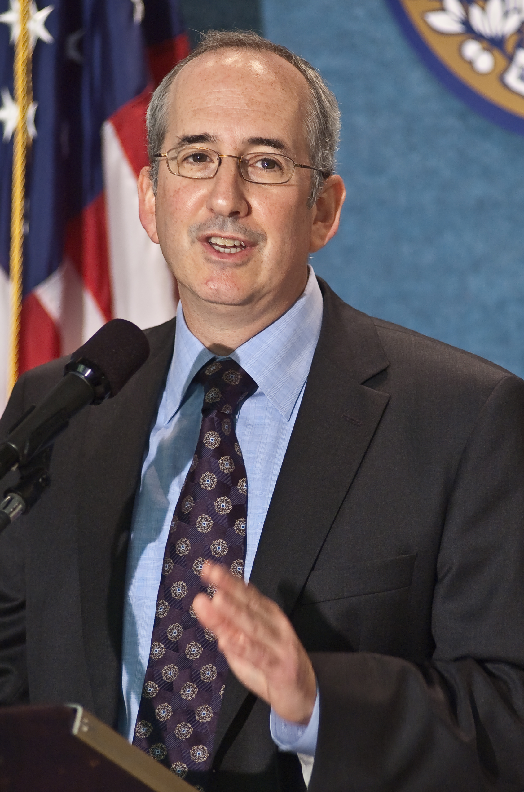 The following is the author's description of the photograph quoted directly from the photograph's Flickr page. "Argonne Press Conference -- Argonne Director Eric Isaacs speaks at a Sept. 15, 2009, press conference at the National Press Club in Washington, D.C. Isaacs briefed the national media on the need for basic research to solve the nation's energy problems and the need to rebuild the nation's "innovation ecology" %u2013 the relationships among industry, universities and the national laboratories that speed the process of translating new knowledge into useful technology and products. "